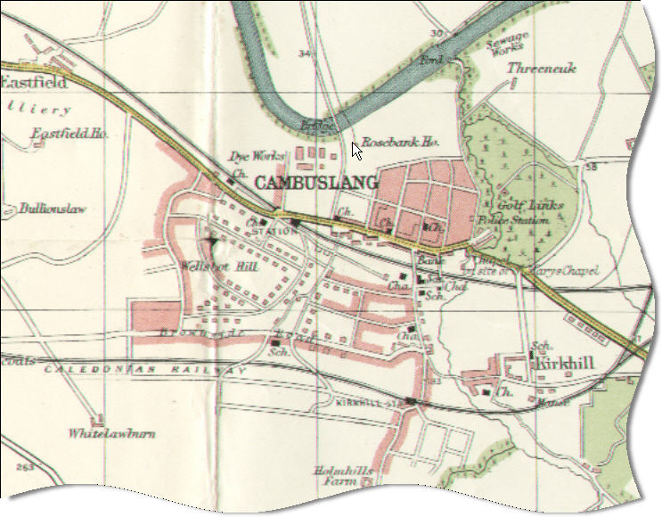 Map of Cambuslang in about 1900